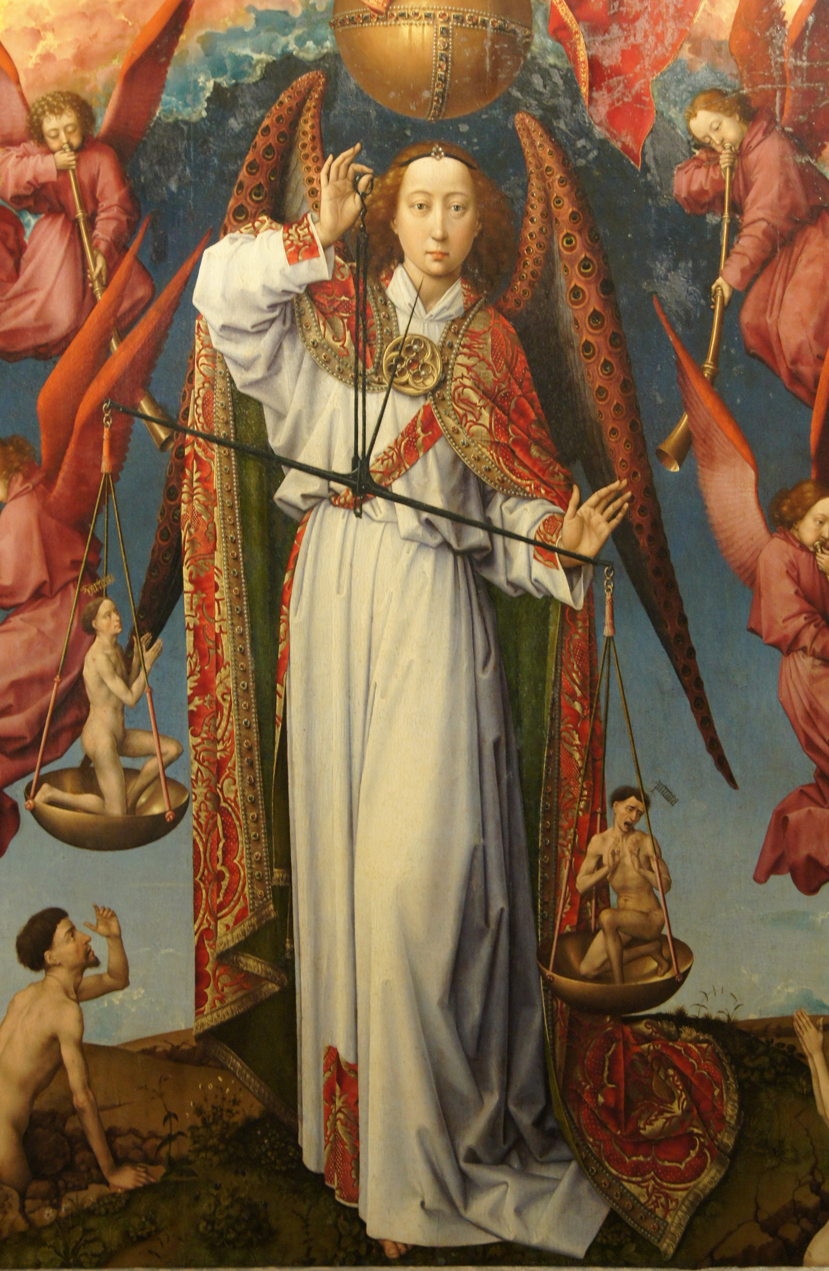 Close-up of Archangel Saint Michael weighing souls, altarpiece of the Last Judgement